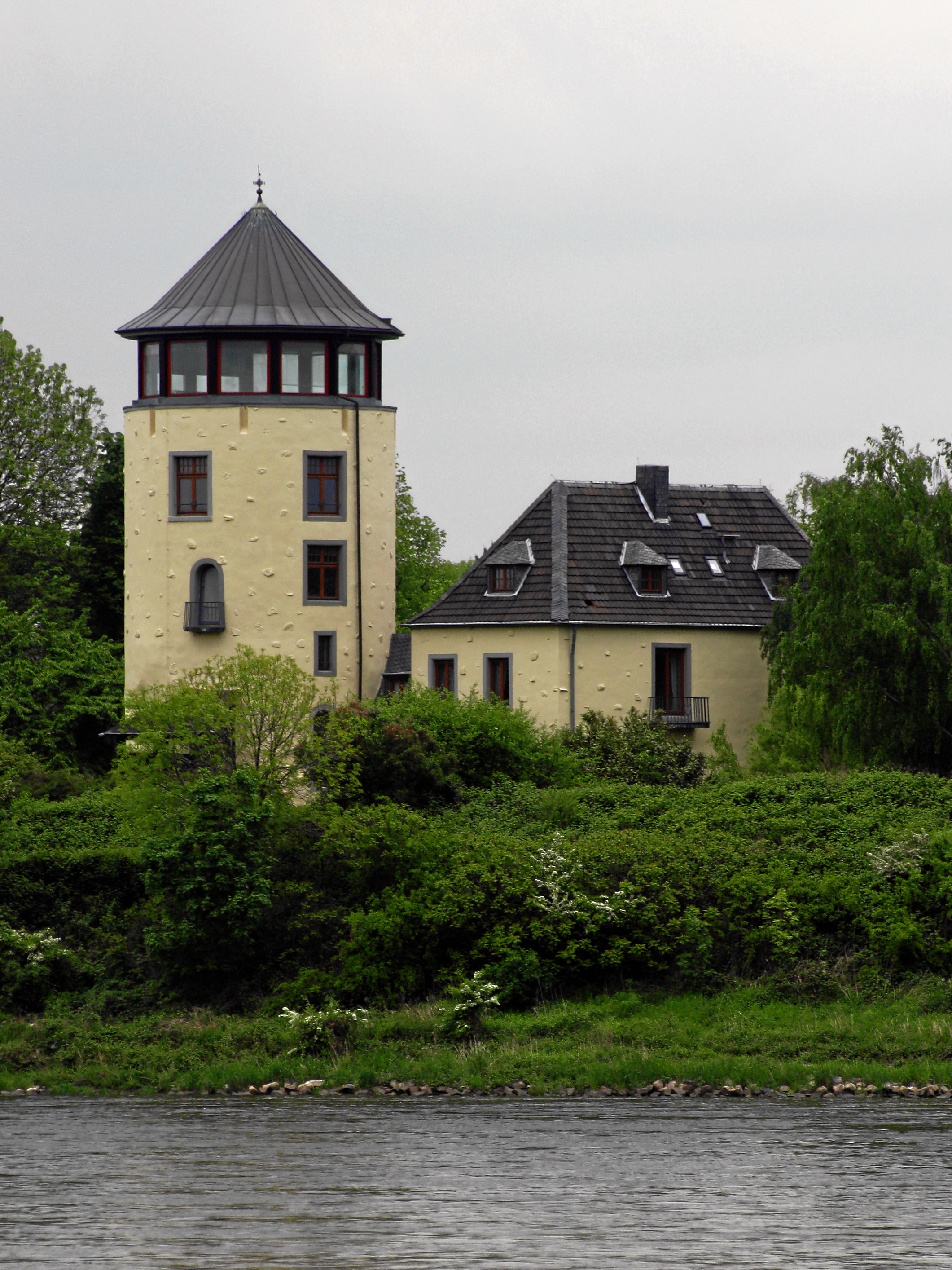 Niederkassel-Lülsdorf, Germany. Castle, exterior view from South.